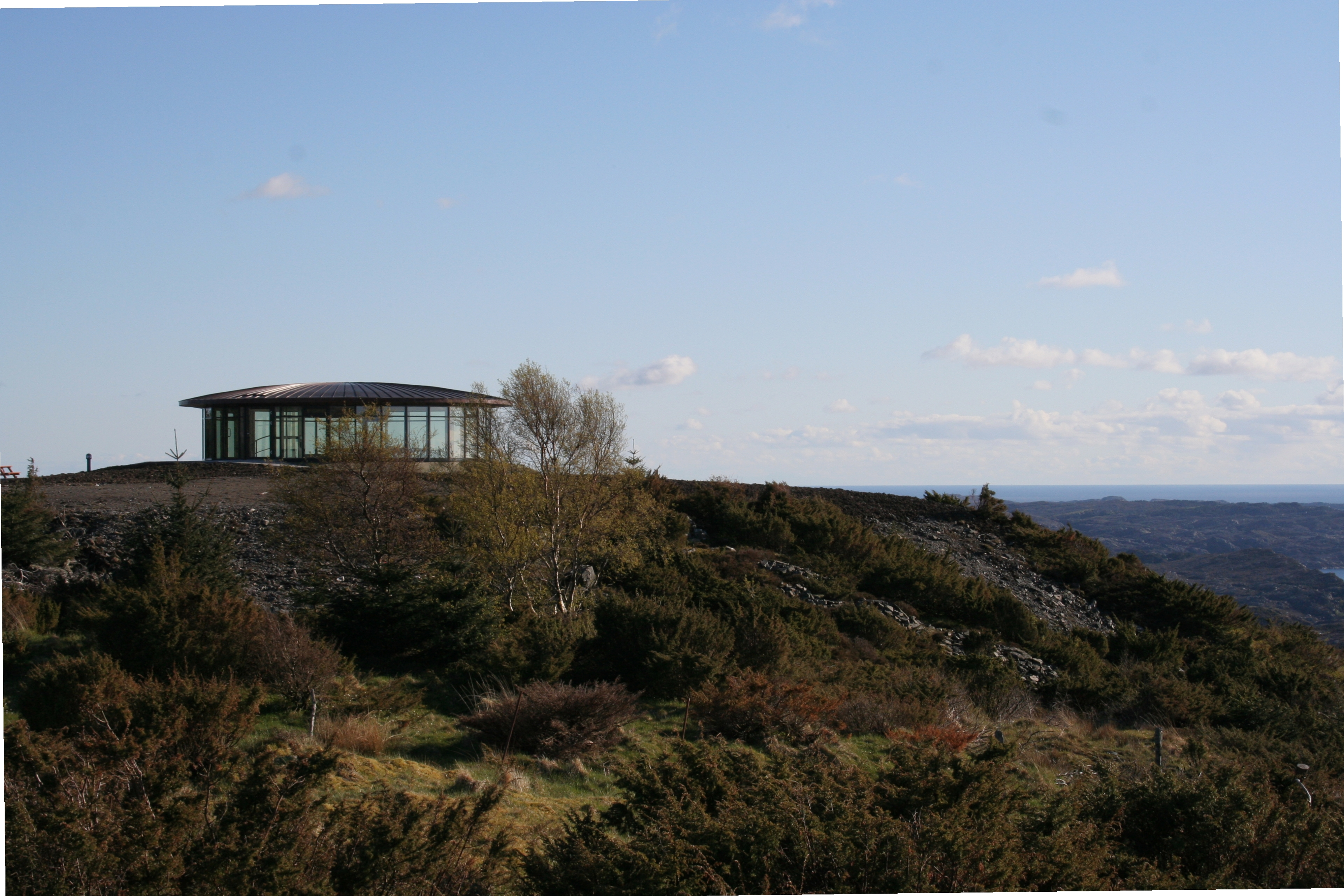 The glass housing built to prevent rain entering the main tunnel system at Fjell Fortress, Sotra, Hordaland, Norway. This picture is taken from roughly the same place as image:1963FjellFestningKanon.jpg, 44 years later.